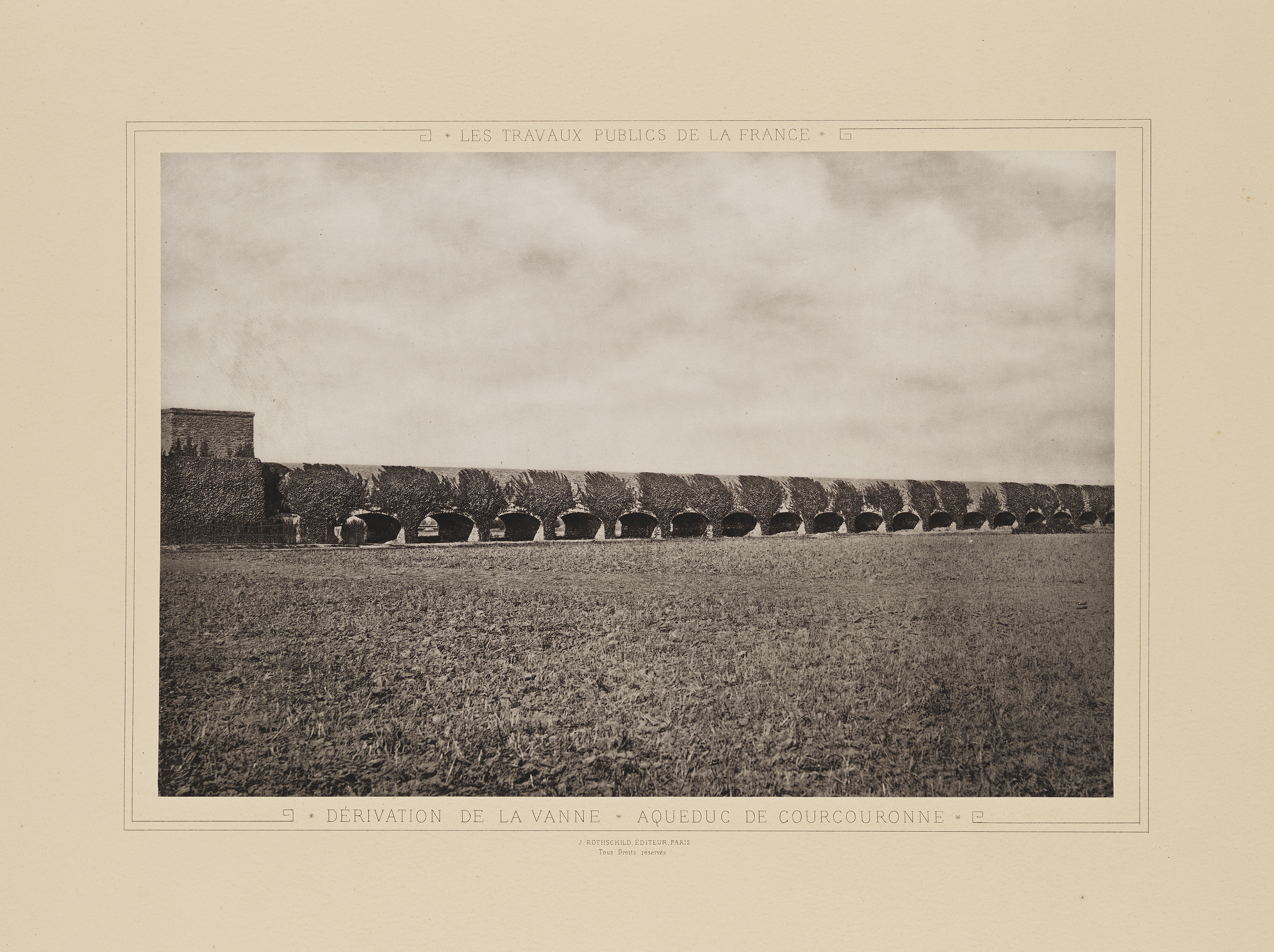 Title: Derivation de la Vanne. Aqueduc de Courcouronne Alternative Title: Derivation of the Vanne. Coucouronne Aqueduct Creator: Unknown Date: 1883 Part Of: Les Travaux Publics de la France, Tome Troisieme: Rivieres et Canaux, Eaux des Villes - Irrigation et Assainissement des Terres Place: Courcouronnes, Essonne, Ile-de-France, France Physical Description: 1 photographic print: collotype; 26 x 35 cm on 40 x 56 cm mount File: vault_folio_2_ta71_a4_1883_3_40_opt.jpg Rights: Please cite Southern Methodist University, Central University Libraries, DeGolyer Library when using this image file. A high-quality version of this file may be obtained for a fee by contacting . For more information, see